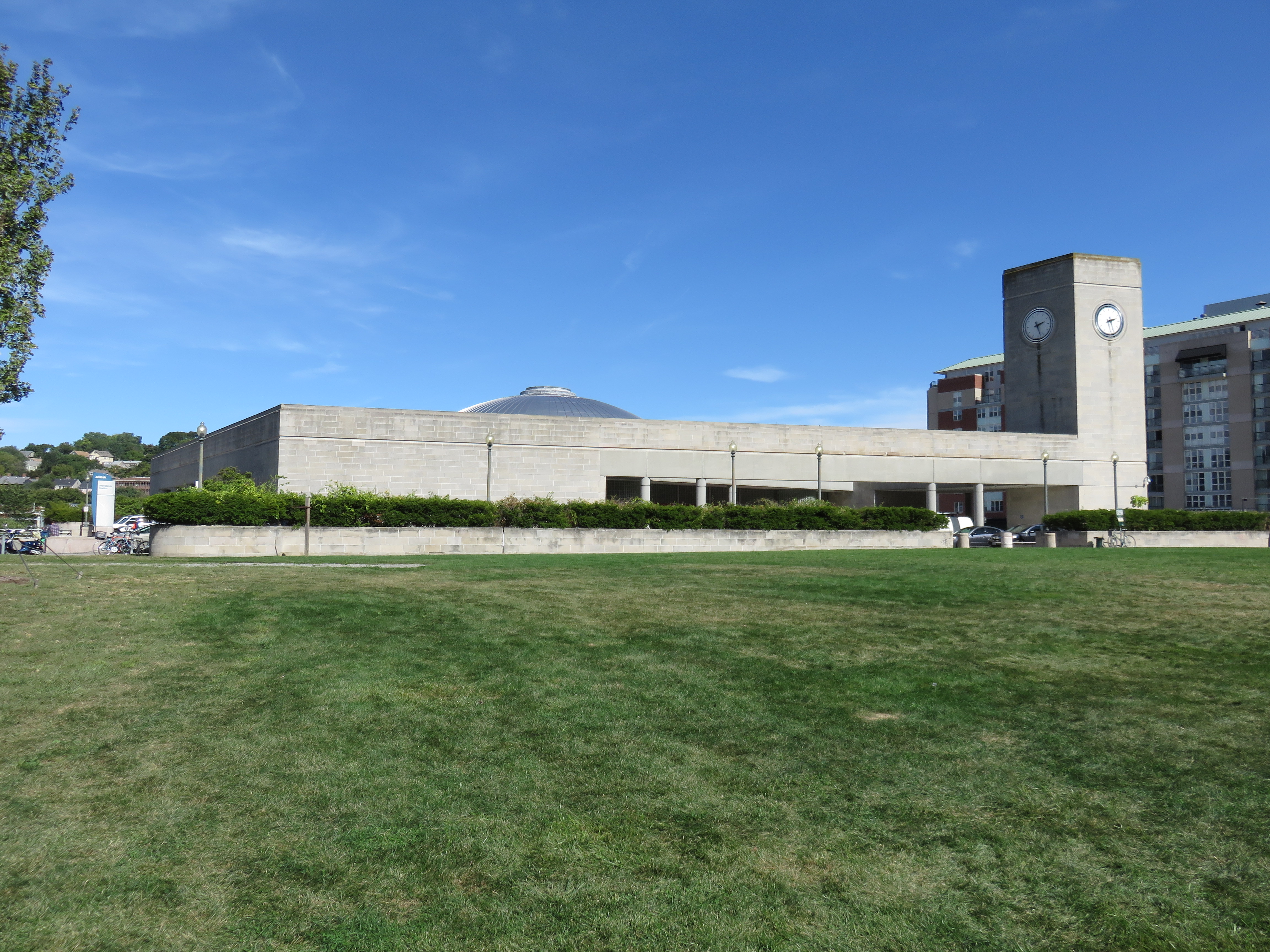 Providence Railroad Station in Providence, Rhode Island from the southwest in 2015